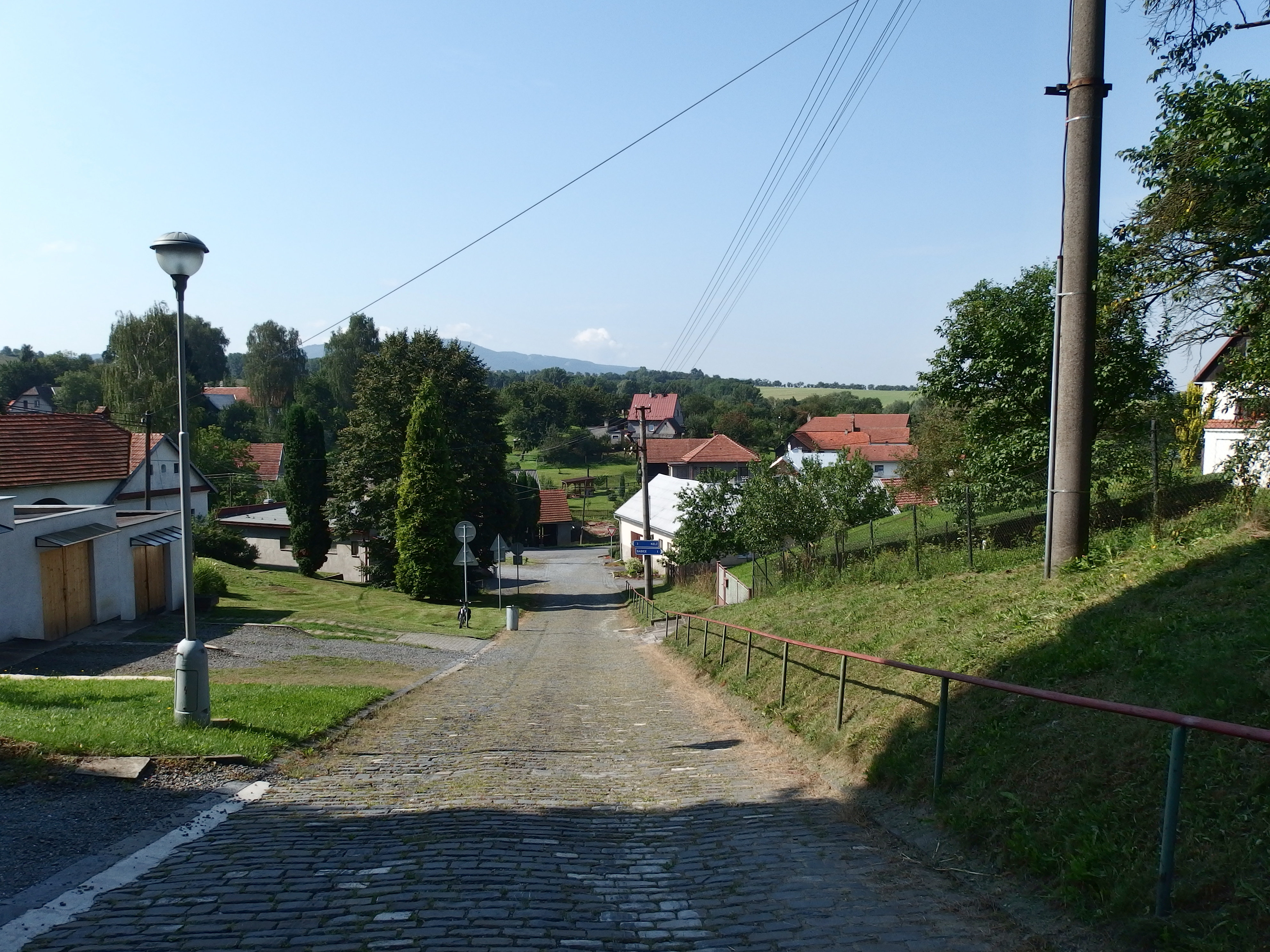 Kelč, Vsetín District, Czech Republic, part Lhota.